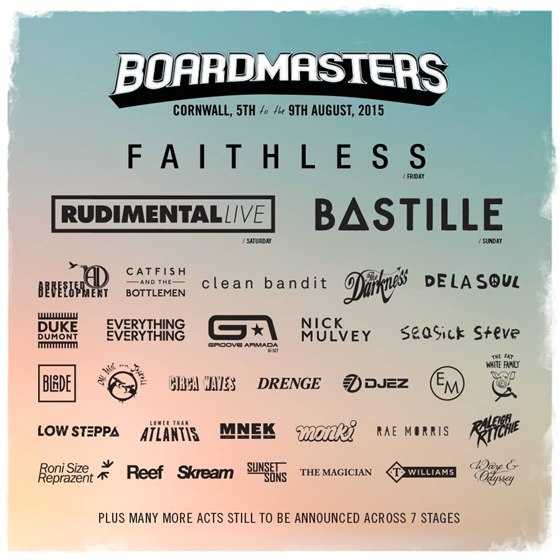 Music line up for Boardmasters Festival 2015